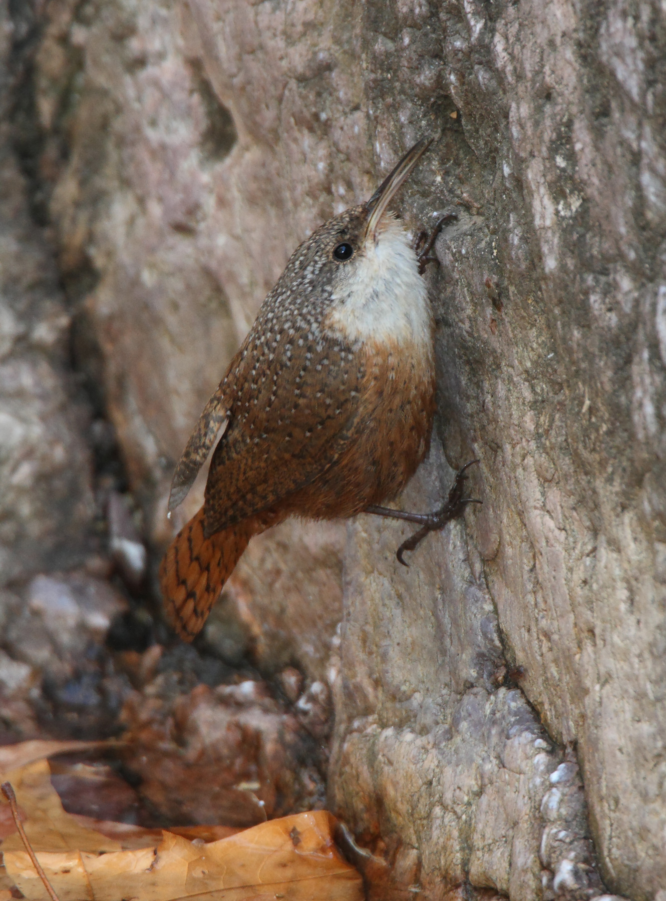 Canyon Wren (Catherpes mexicanus), Madera Canyon, Arizona